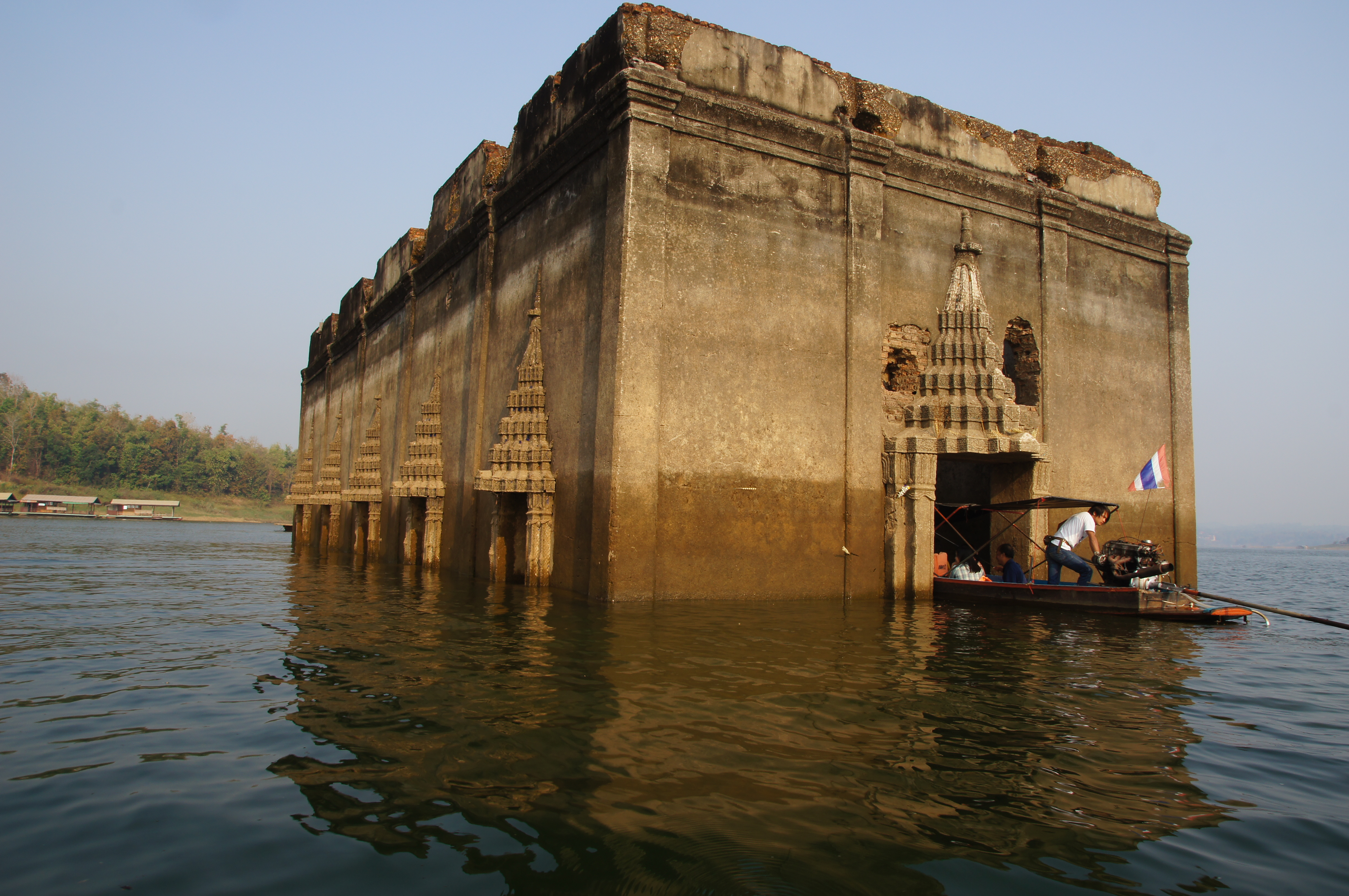 Under water temple in Vajiralongkorn Dam